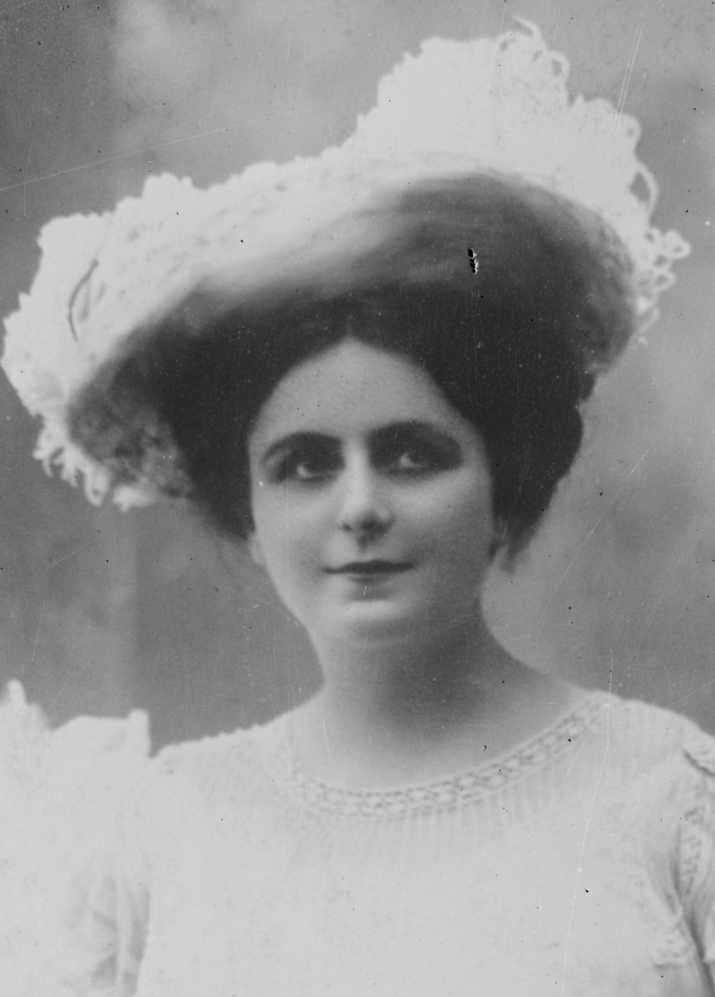 Title: Anita Owen Abstract/medium: 1 negative : glass ; 5 x 7 in. or smaller.